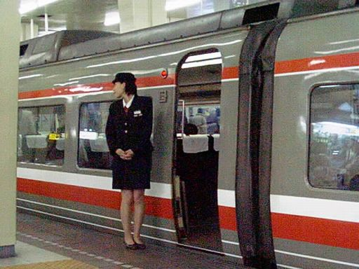 Entrance of Odakyu Elecrtic Railway type 3100.